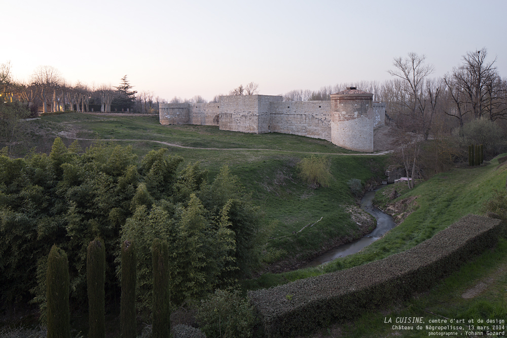 LA CUISINE, art and design center Nègrepelisse castle Photographer : Yohann Gozard